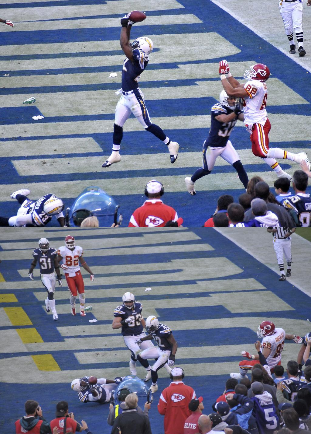 November 9, 2008 game against the Kansas City Chiefs.